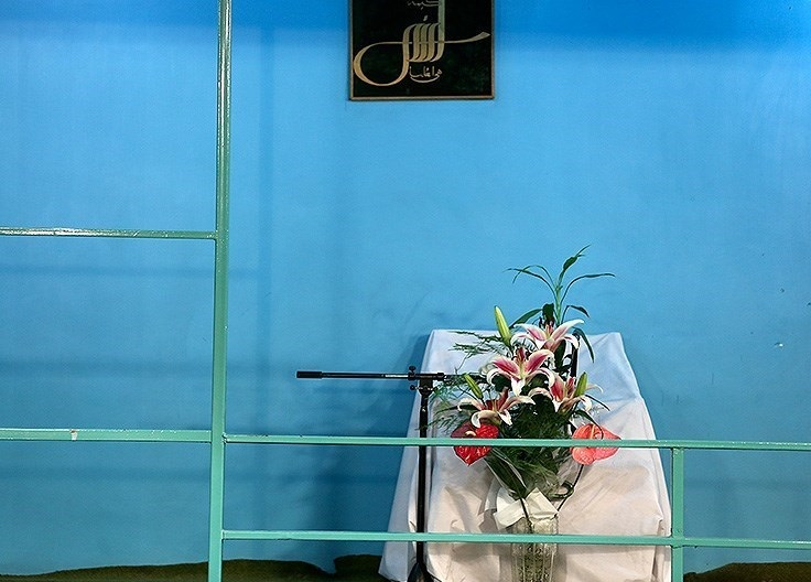 Ruhollah Khomeini’s residency in Jamaran